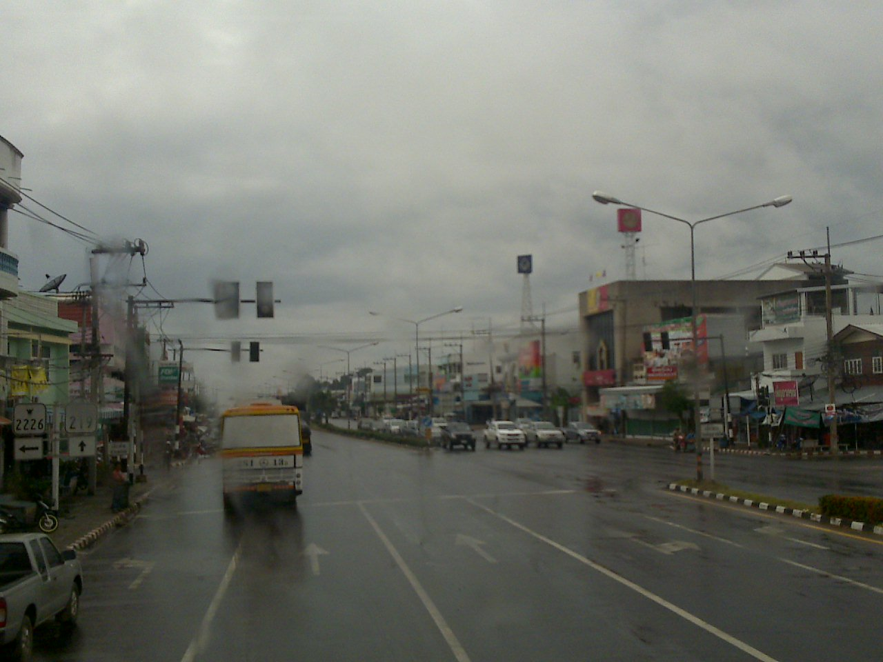 Sutuek Buriram, Thailand